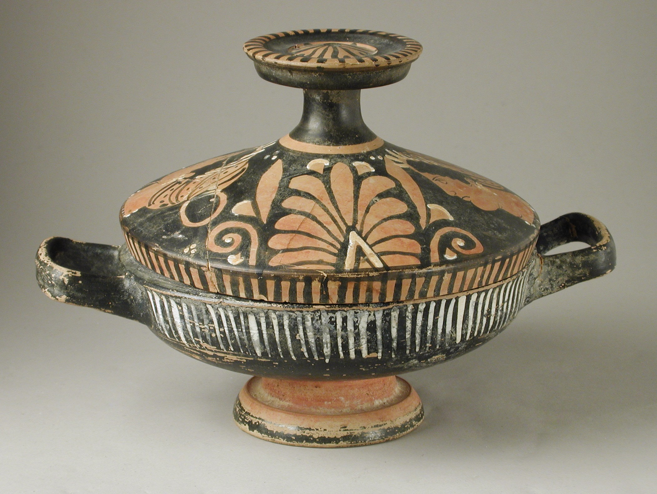 Italy, Apulia, 4th century B.C. Furnishings; Accessories Ceramic Gift of Robert Blaugrund (M.80.196.25a-b) Greek, Roman and Etruscan Art